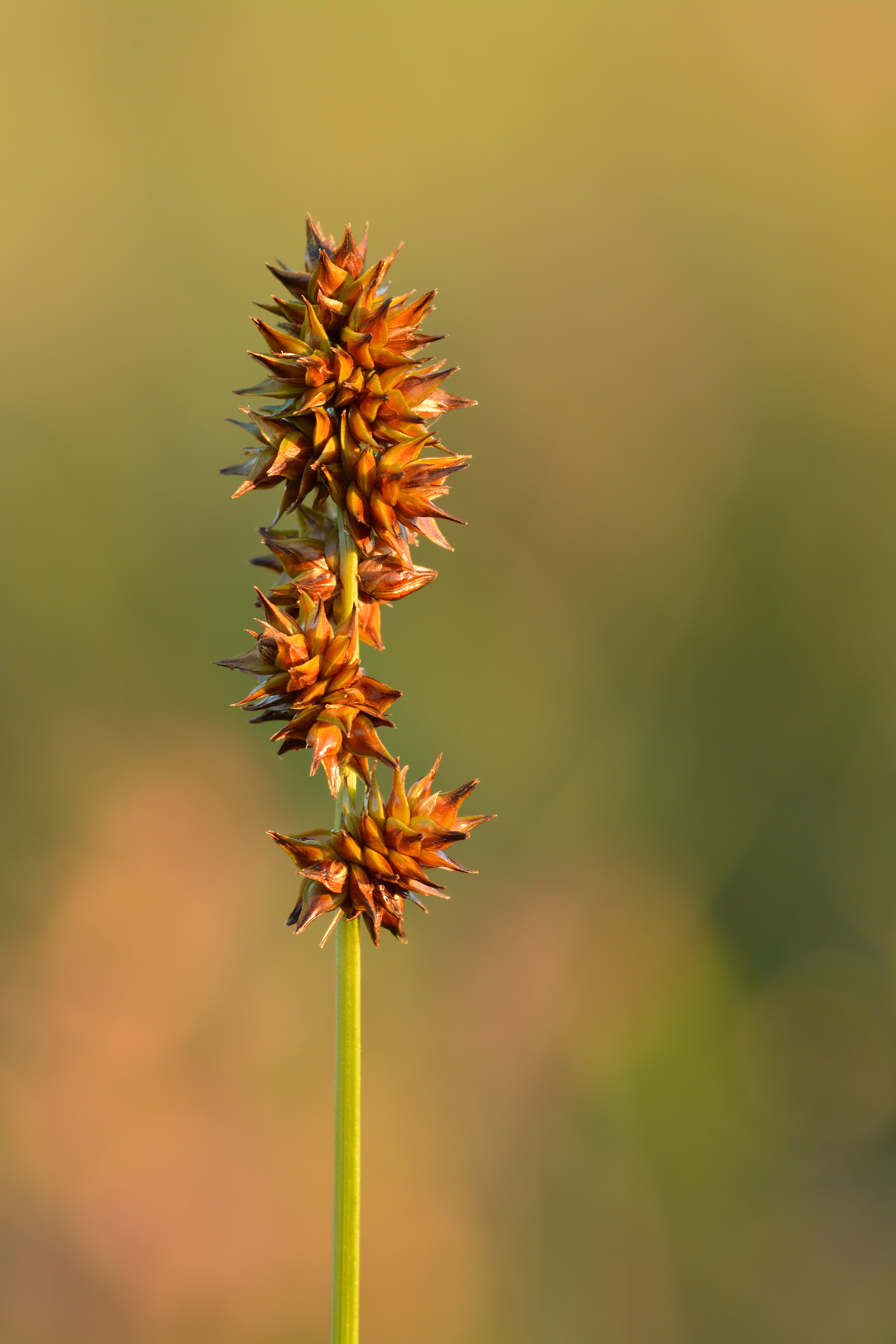 Carex muricata - prickly sedge. Alvar in Keila, Northwestern Estonia.